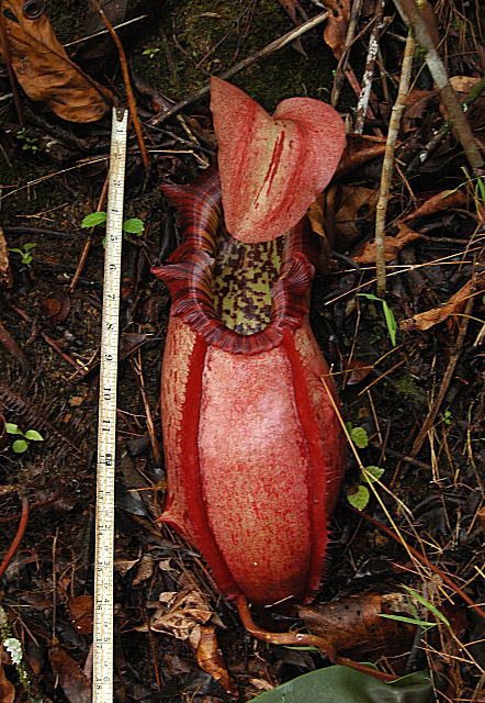 Nepenthes northiana